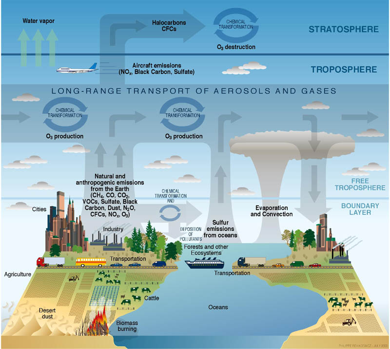 Composition diagram showing the evolution/cycles of various elements in Earth's atmosphere. Original subscript: Schematic of chemical and transport processes related to atmospheric composition. These processes link the atmosphere with other components of the Earth system, including the oceans, land, and terrestrial and marine plants and animals.